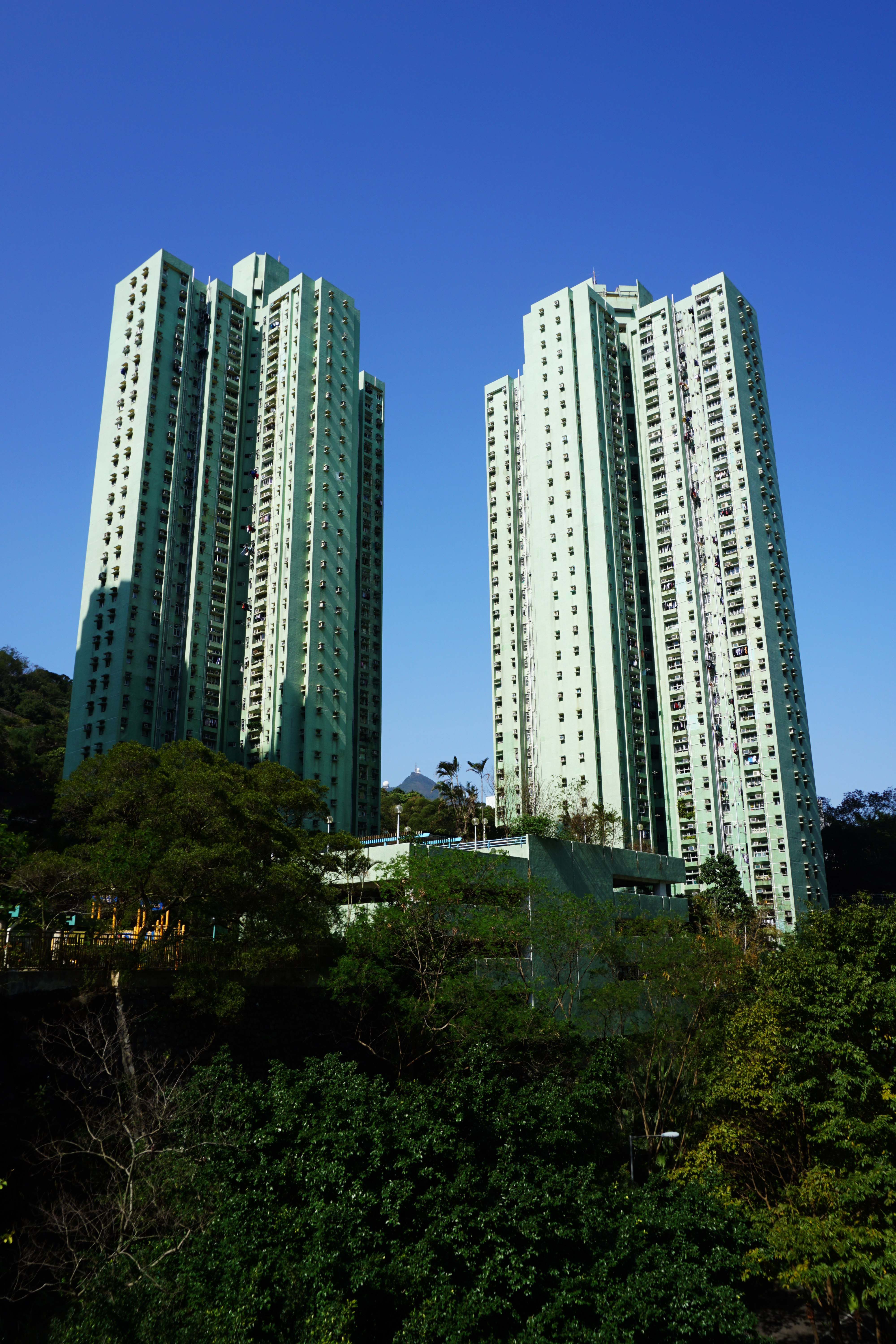 Hiu Tsui Court in Siu Sai Wan, Hong Kong.